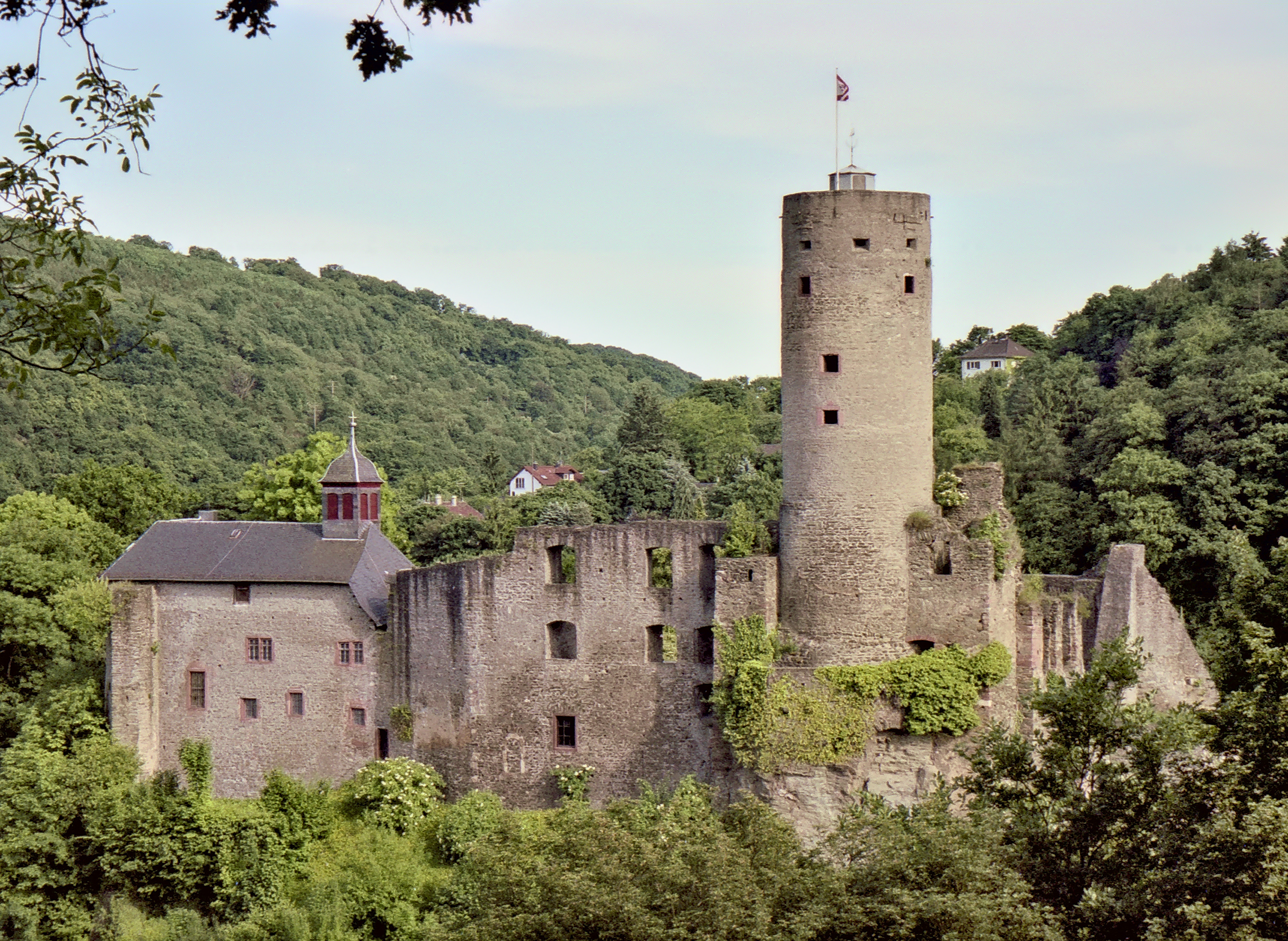 The Eppstein castle at Eppstein, Taunus, Germany. View from north-western direction.